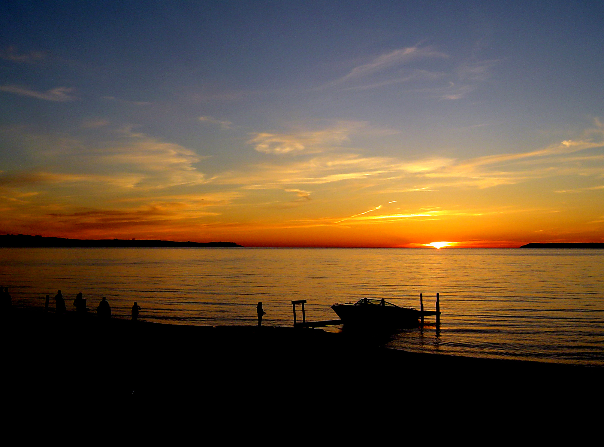 Glen Arbor at sunset (as seen from the Le Bear Resort)